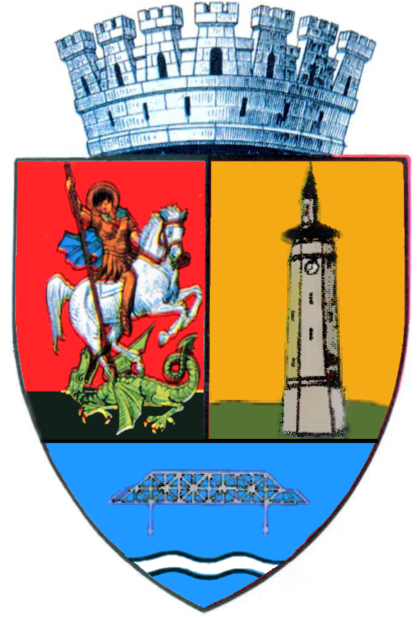 Coat of arms of Giurgiu, Romania.